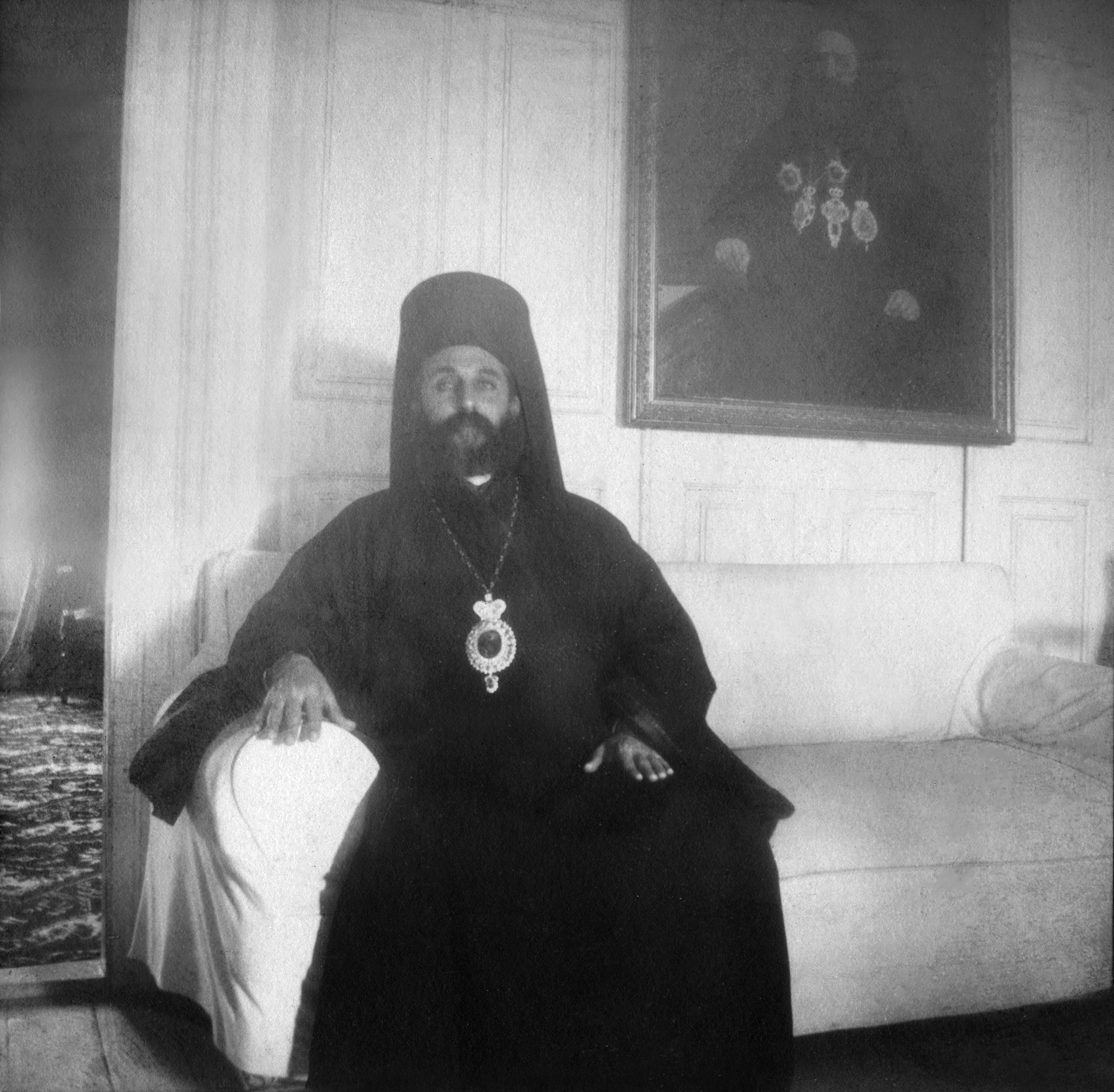 Ioakeim II Valassiades (1860-1933), Archbishop of Nikopolis and Preveza (1910-1931) Photograph by Prince Nicholas of Greece and Denmark, 1913 Photograph Archive of the Foundation Actia Nicopolis